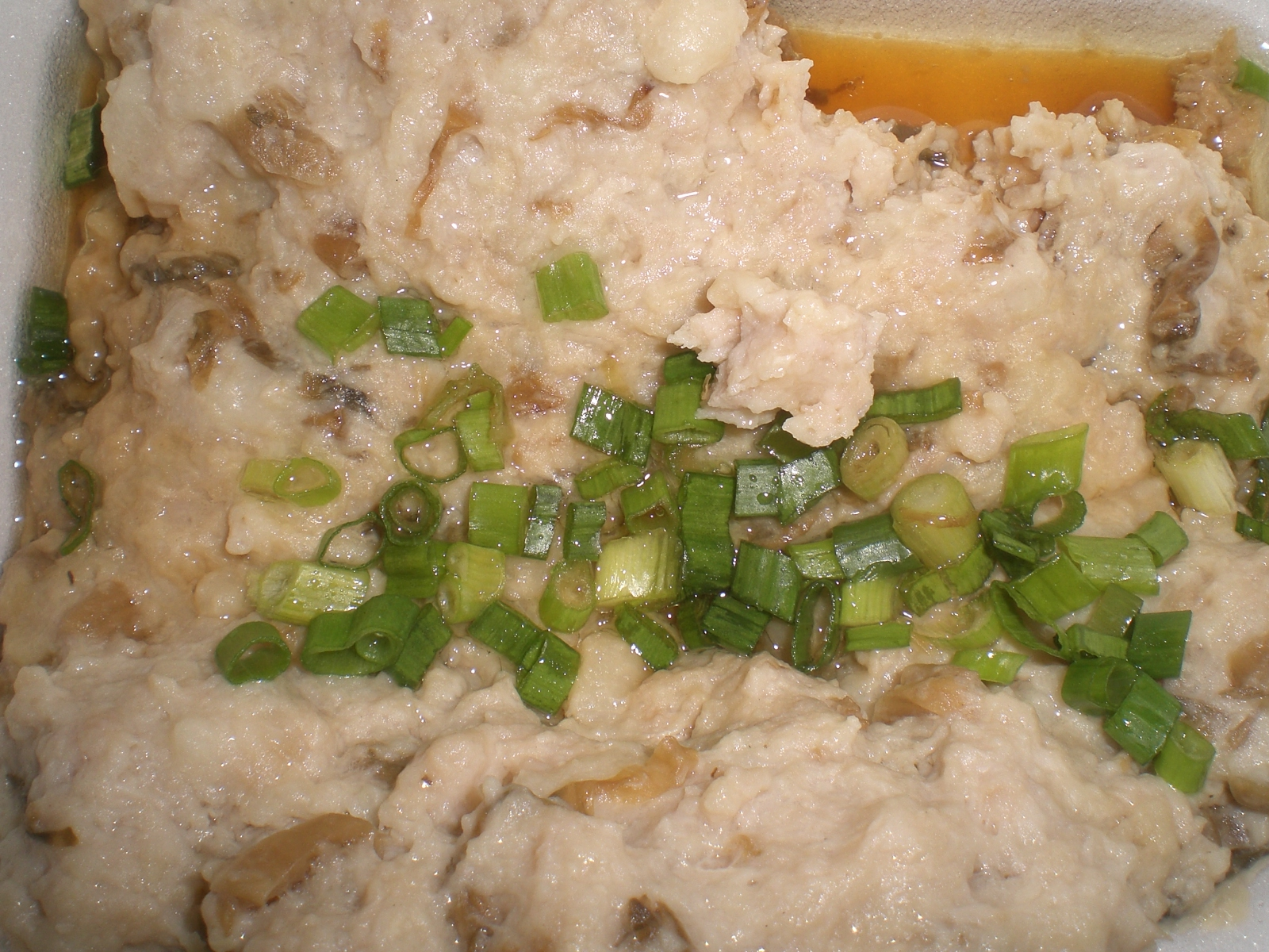 中華料理 香港飲食 蒸 肉餅 加蔥